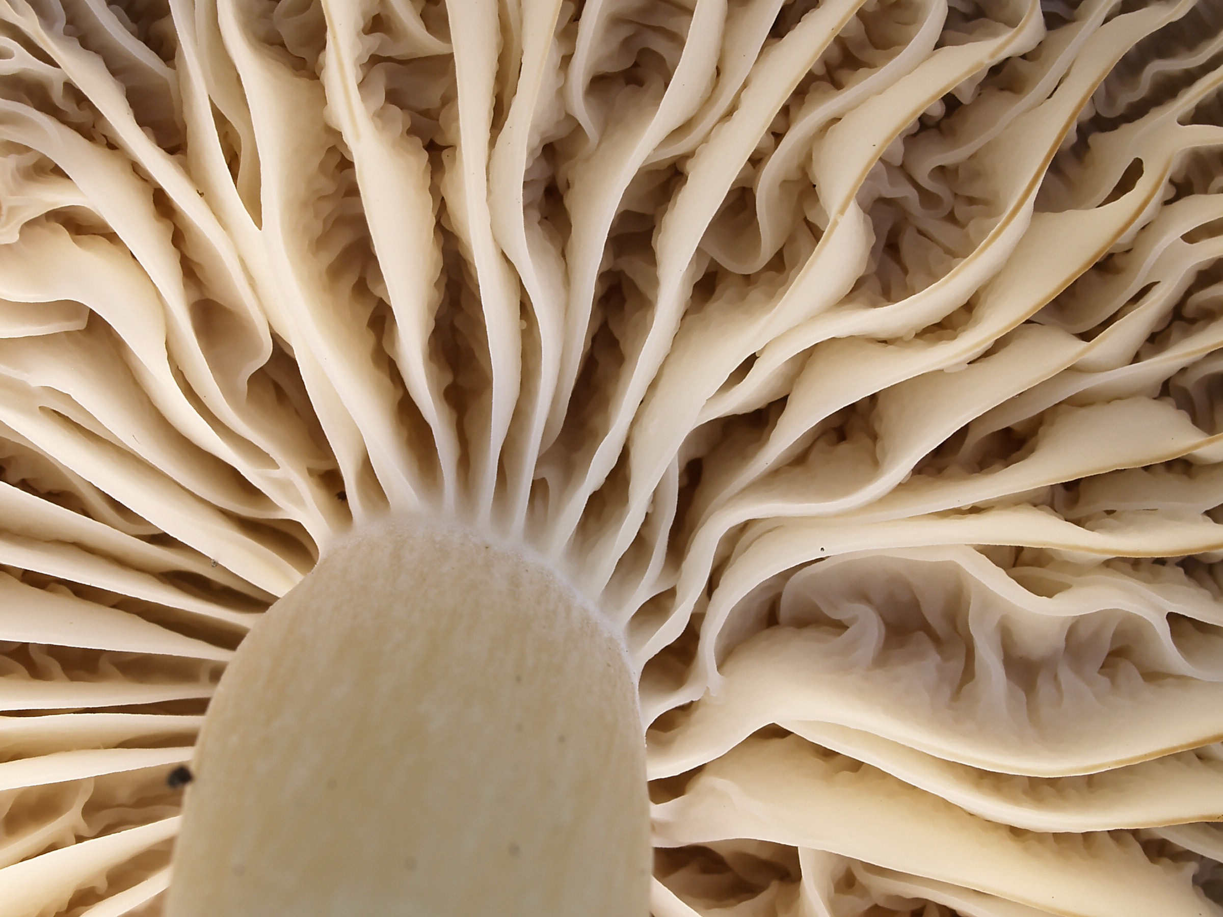 Toasted Waxcap (Cuphophyllus colemannianus)